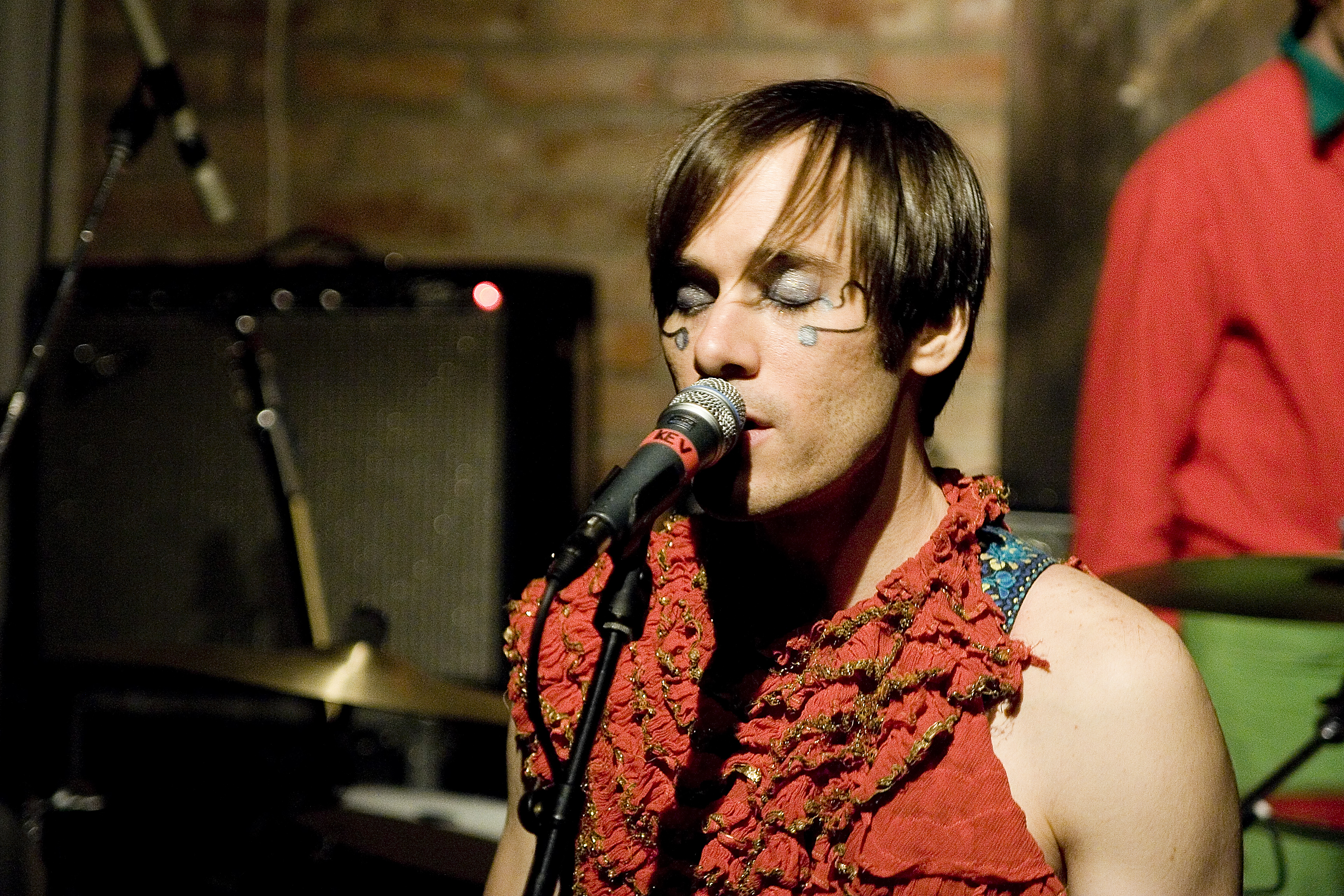 Kevin Barnes from the band "of Montreal" playing at Röda Sten in Göteborg/Gothenburg, Sweden on November 3, 2005. Contrast adjusted and white balance corrected.